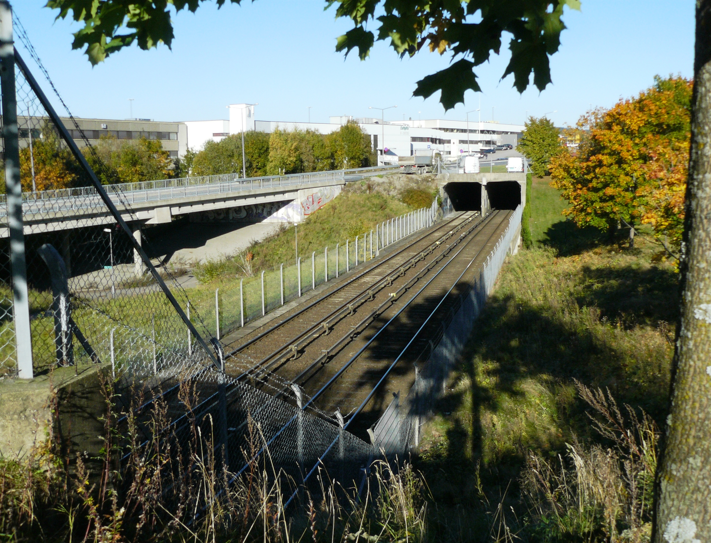 Furusetbanen between Lindeberg (which is closest) and Furuset, at the Oslo subway